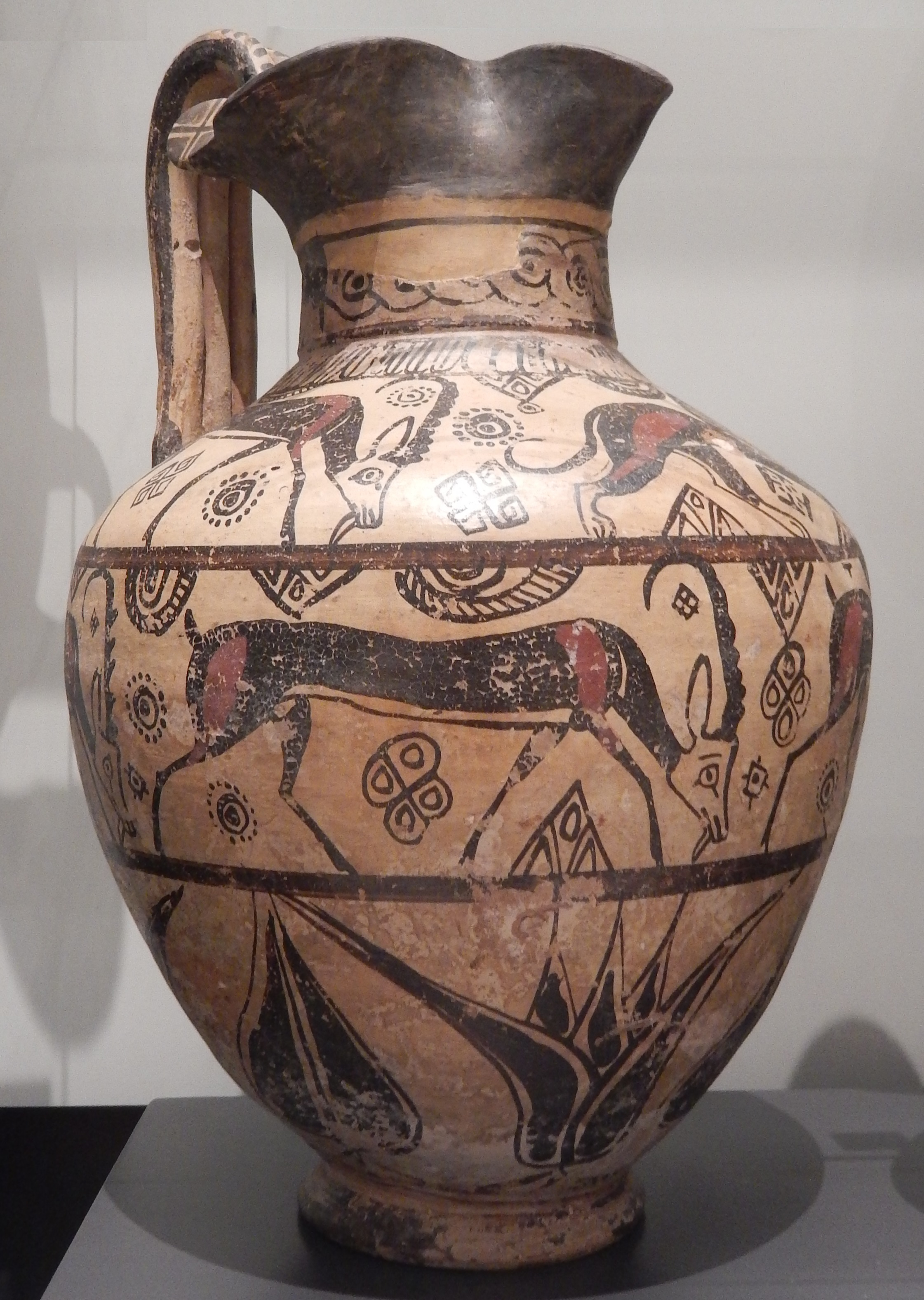 East Greek oinochoe (wine jug) in the 'Wild Goat' style, with animal friezes featuring wild goats combined with floral and geometric motifs. 620-570 BC. Gift of John Beazley. AN1966.1021.